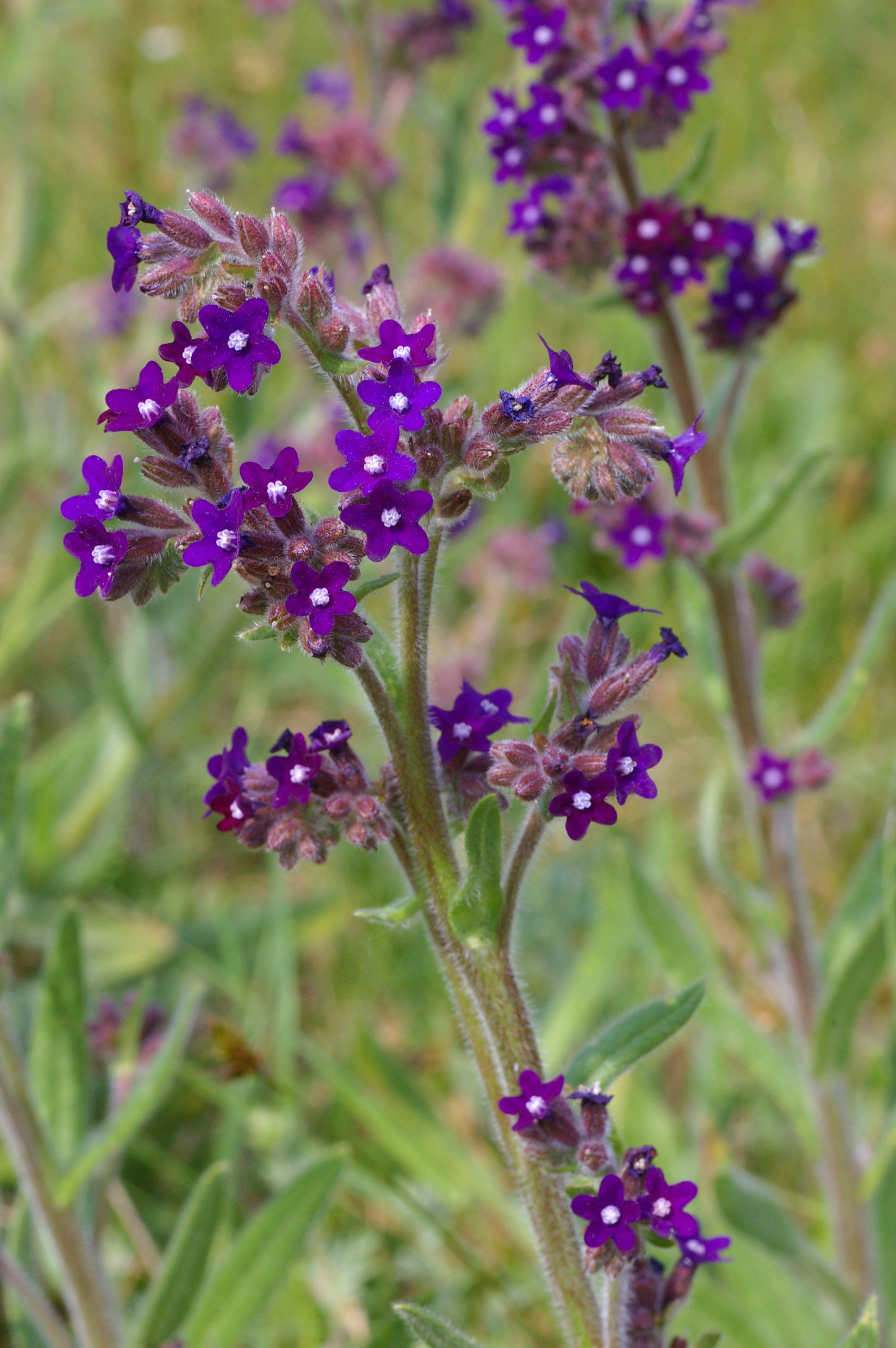 The Common Bugloss, Anchusa officinalis.